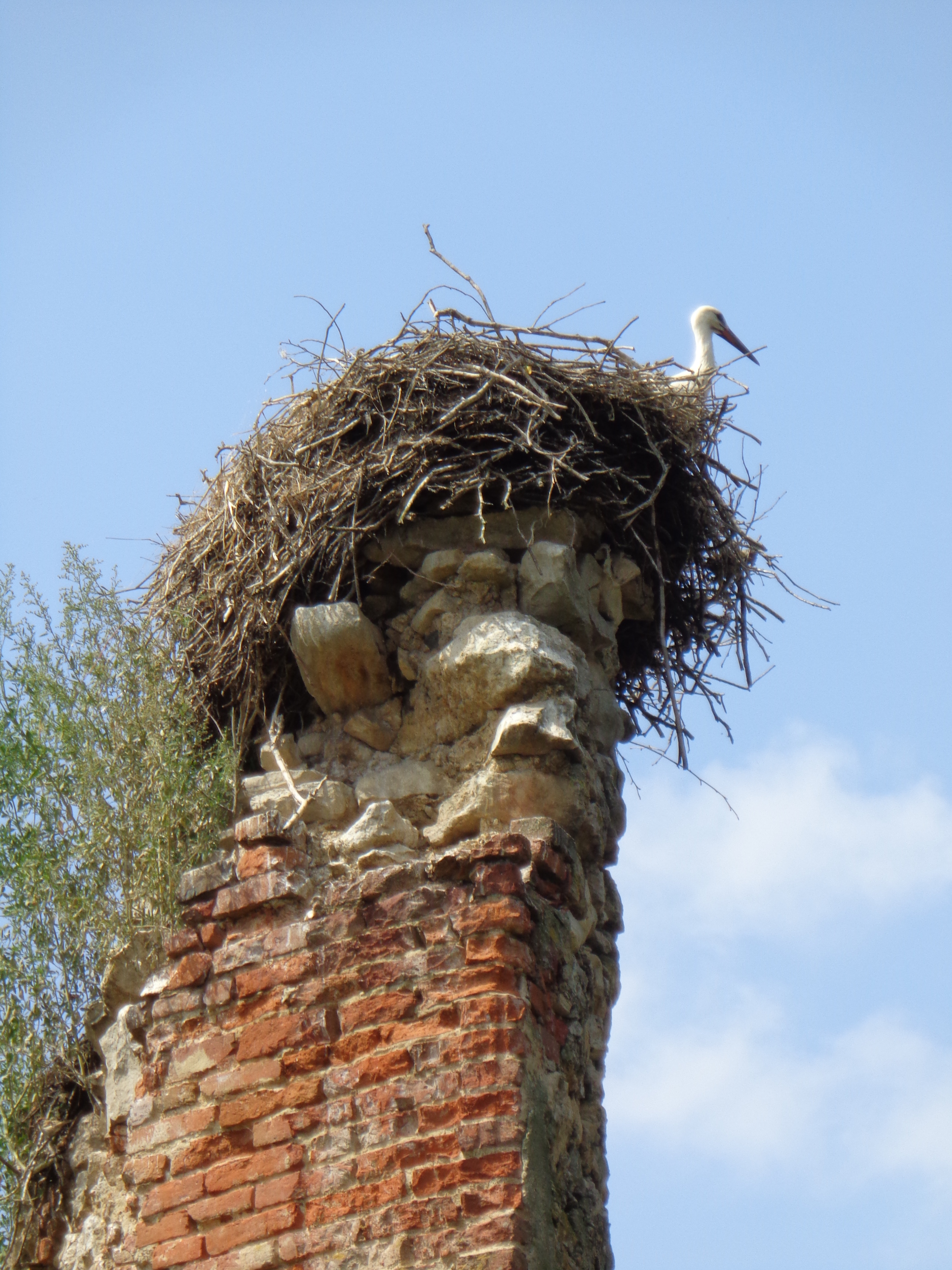 Bisag Castle in Bisag village, Varaždin County, Croatia - stork in nest